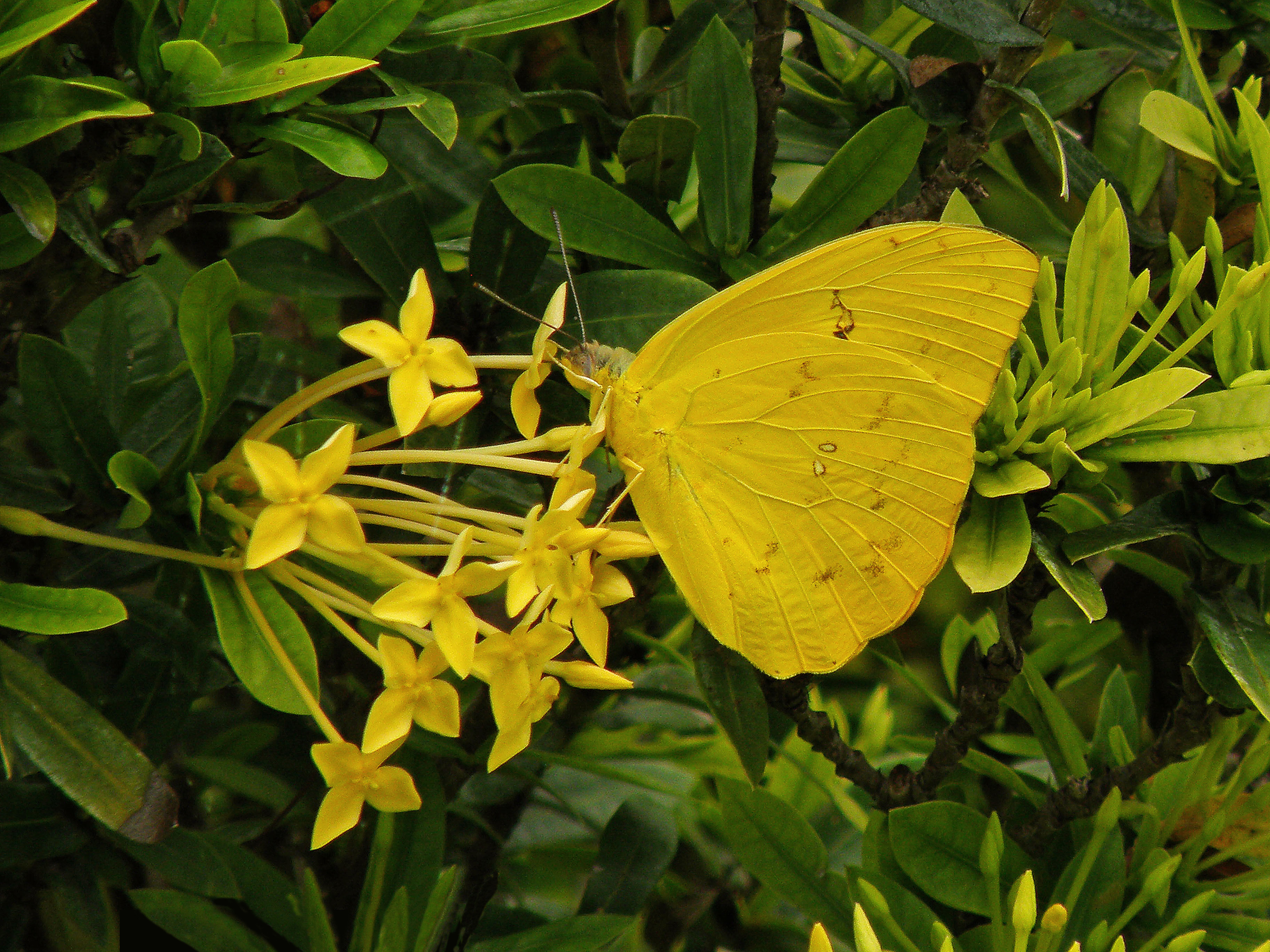 Beautiful butterfly getting some nectar from an Ixora.